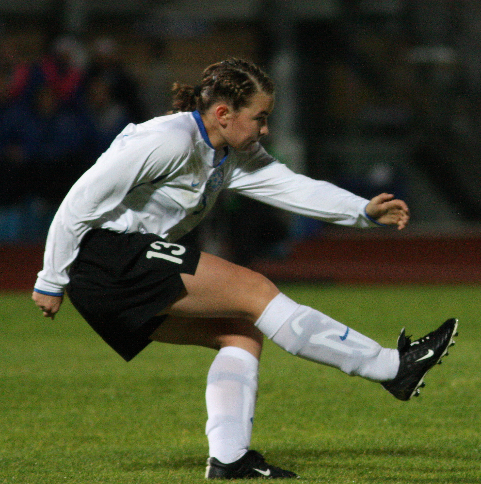 Iceland - Estonia/2011 FIFA Women's World Cup qualification UEFA Group 1